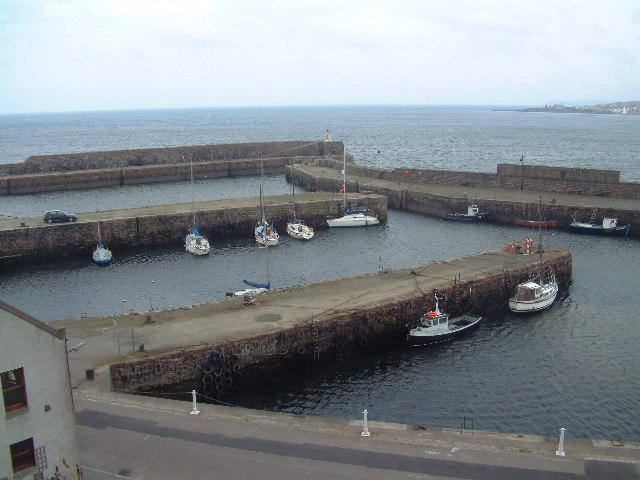 Banff Harbour. A former fishing and cargo port, it is now used as a recreational harbour.